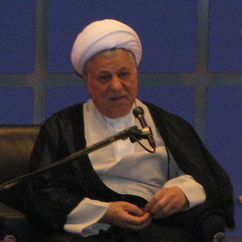 Akbar Hashemi Rafsanjani. Chairman of the Assembly of Experts, Chairman of the Expediency Discernment Council, Former Iranian President.